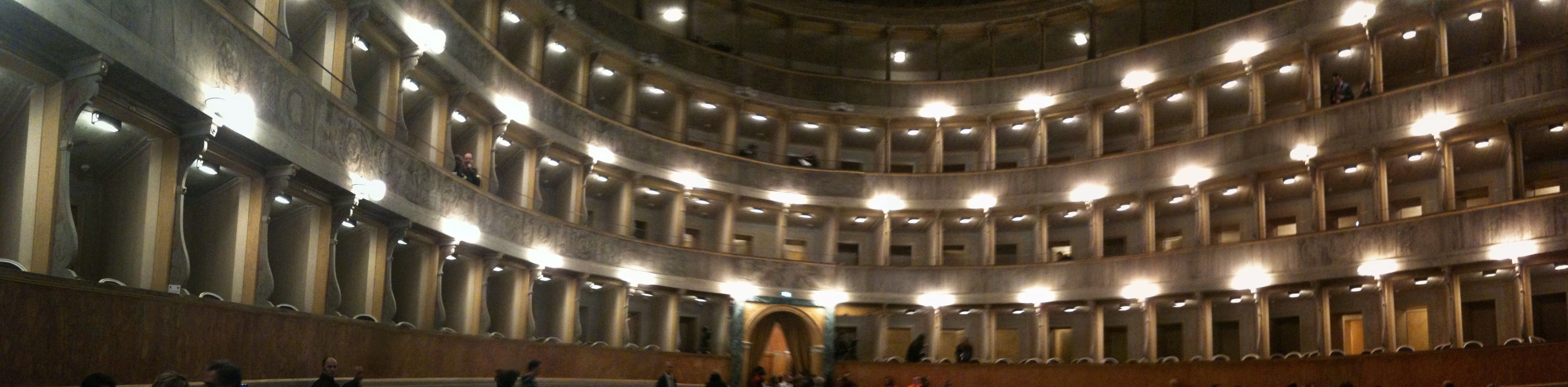 Panorama of Teatro Sociale in Bergamo, Italy